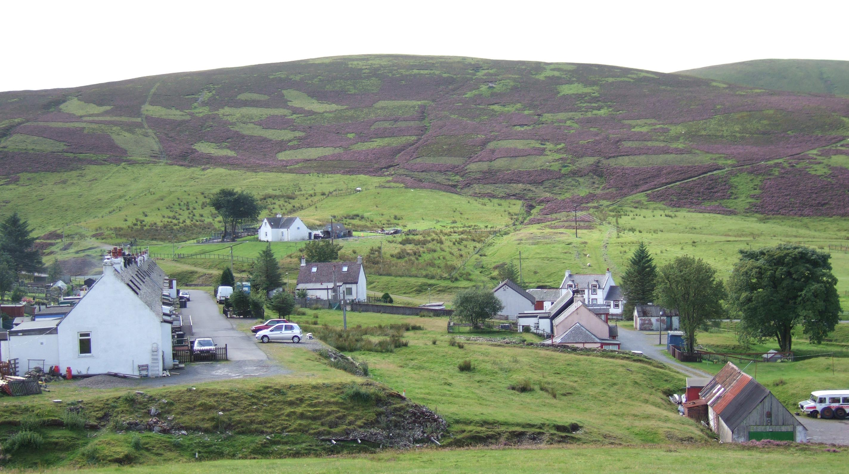 Wanlockhead Village. 29th August 2005 Photographer - A.M.Hurrell Camera - Fuji FinePix F10 Modified - Trimmed and file size reduced using Finepix Software